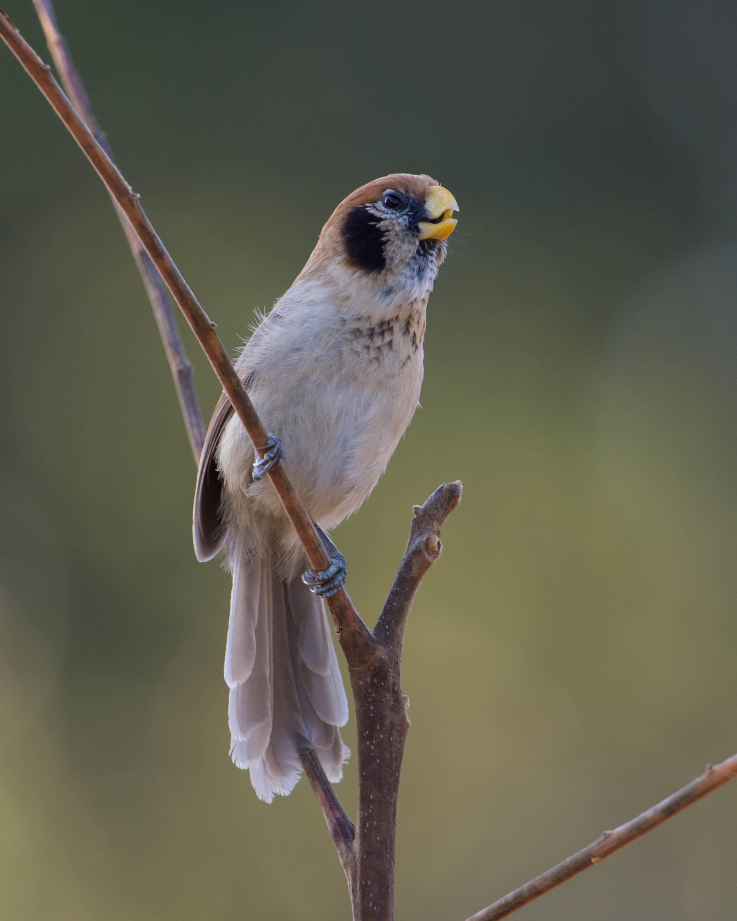 Spot-breasted Parrotbill Paradoxornis guttaticollis, Mai Fang, Doi Lang, Chiang Mai Thailand.